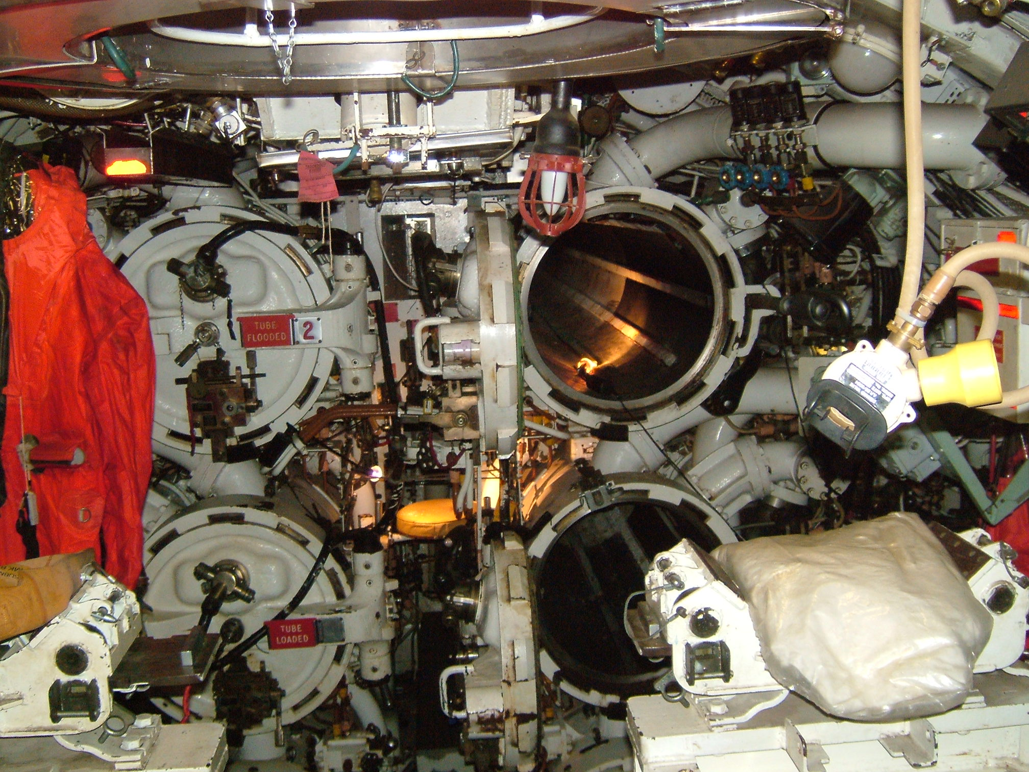 Interior of HMS Ocelot, submarine,museum ship in Chatham Dockyard, the torpedo tubes and the forward escape hatch, flotation and breathing apparatus is in the picture.